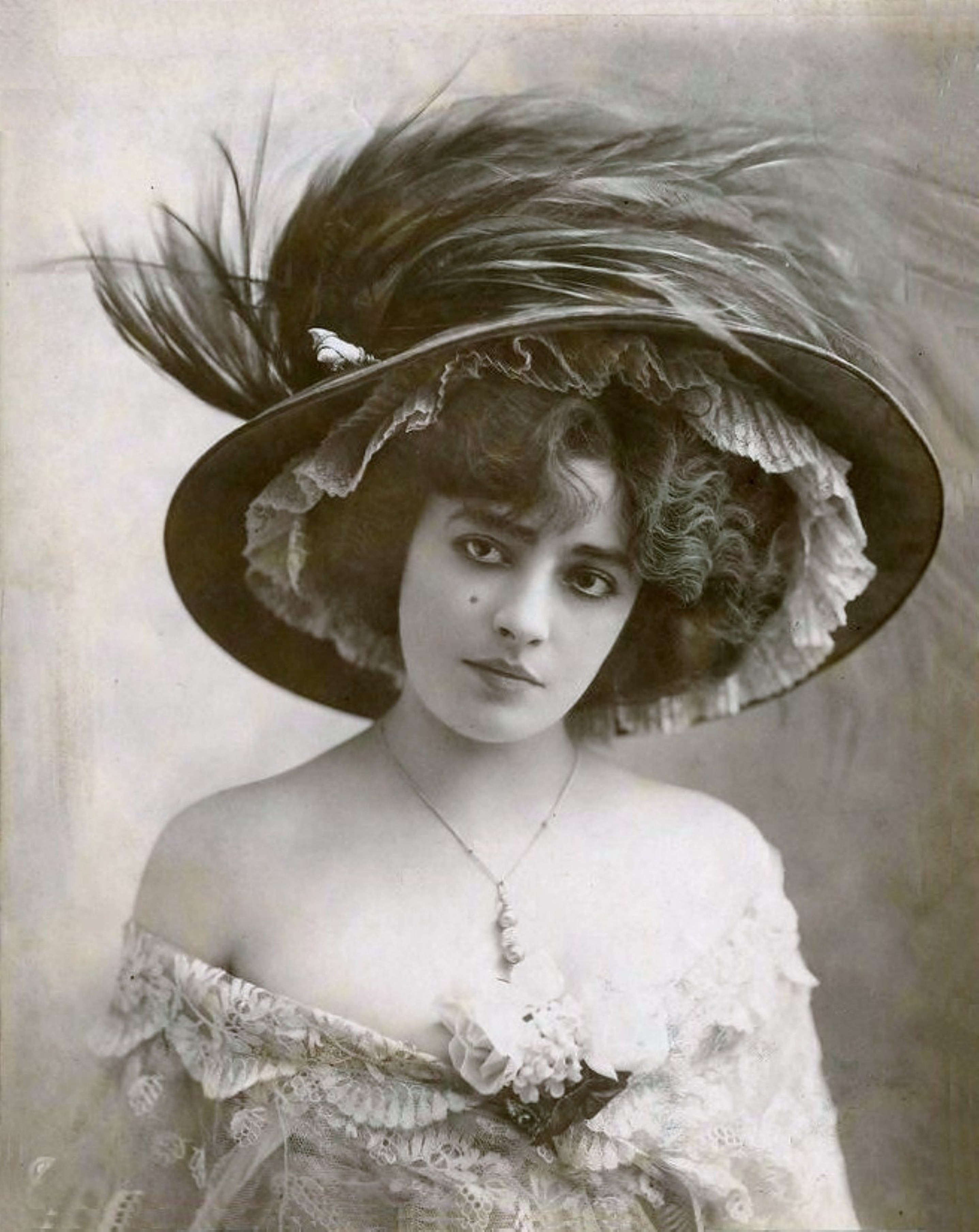 The French actress Geneviève Lantelme by photographer Auguste Bert.